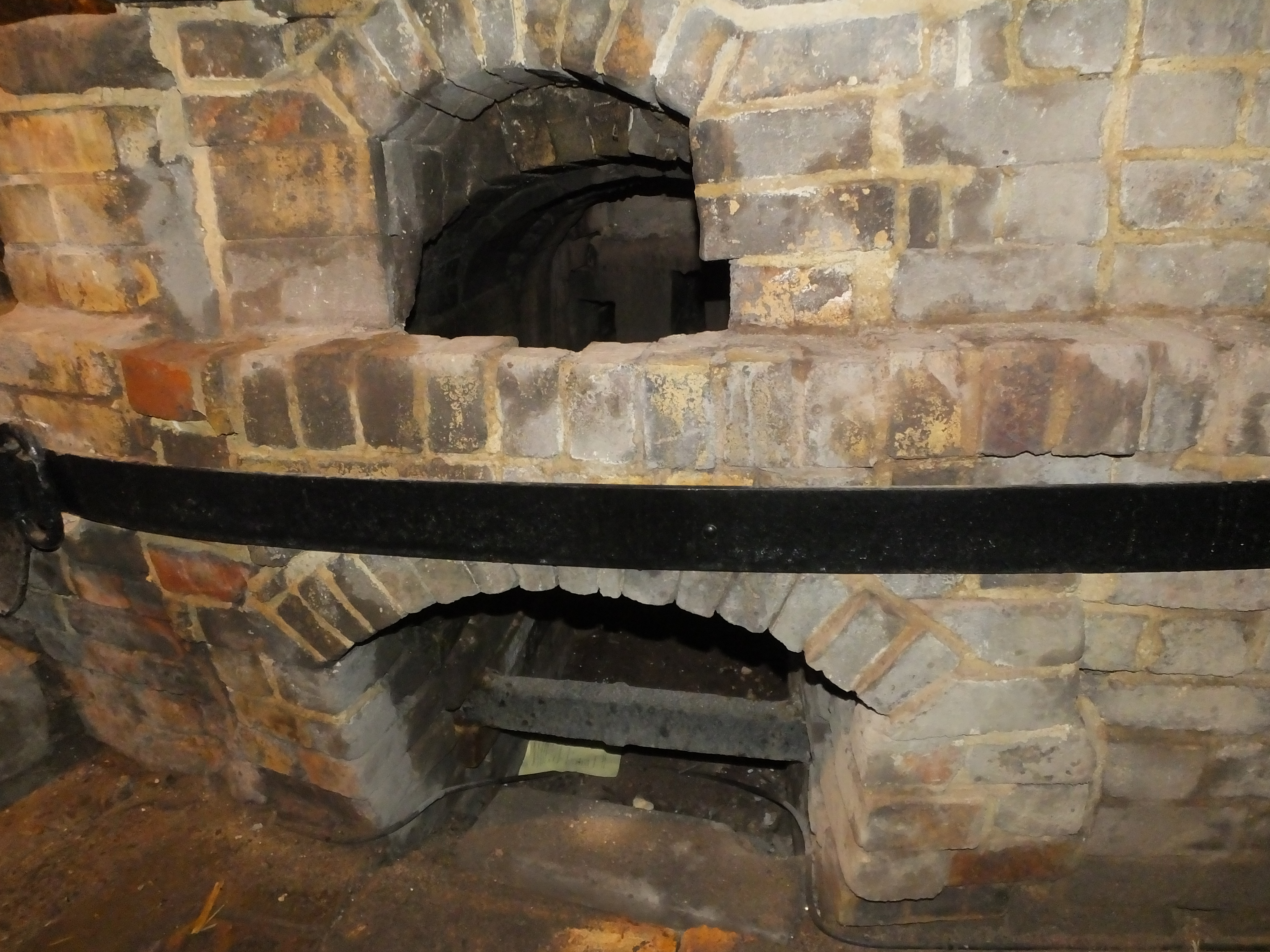 The Gladstone Pottery Museum The Gladstone Pottery Museum is a grade II* listed site in Stoke-on-Trent, with many protected features including the bottle kilns. Bottle oven A bottle oven is protected by an outer hovel which helps to create an updraught. The biscuit kiln was filled with saggars of green flatwares (bedded in flint) by placers. The doors (clammins) were bricked up and the firing began. Each firing took 14 tons of coal. Fires were lit in the firemouths and baited ever four hours, Flames rose up inside the kilns, heat passed between the bungs of saggars. They controlled the temperature of the firing using dampers in the crown. The temperature was gauged by watching the contraction of bullers rings place in the kiln. A kiln would be fired to 1250C The biscuitwares are glazed and fired again in the bigger glost kilns- again they are placed in saggers, separated by kiln furniture such as stints, saddles and thimbles. The enamel (or muffle kiln) is of different construction- it fired at 700C. The pots were stacked on 7 or 8 levels of clay bats (shelves). The door was iron lined with brick.